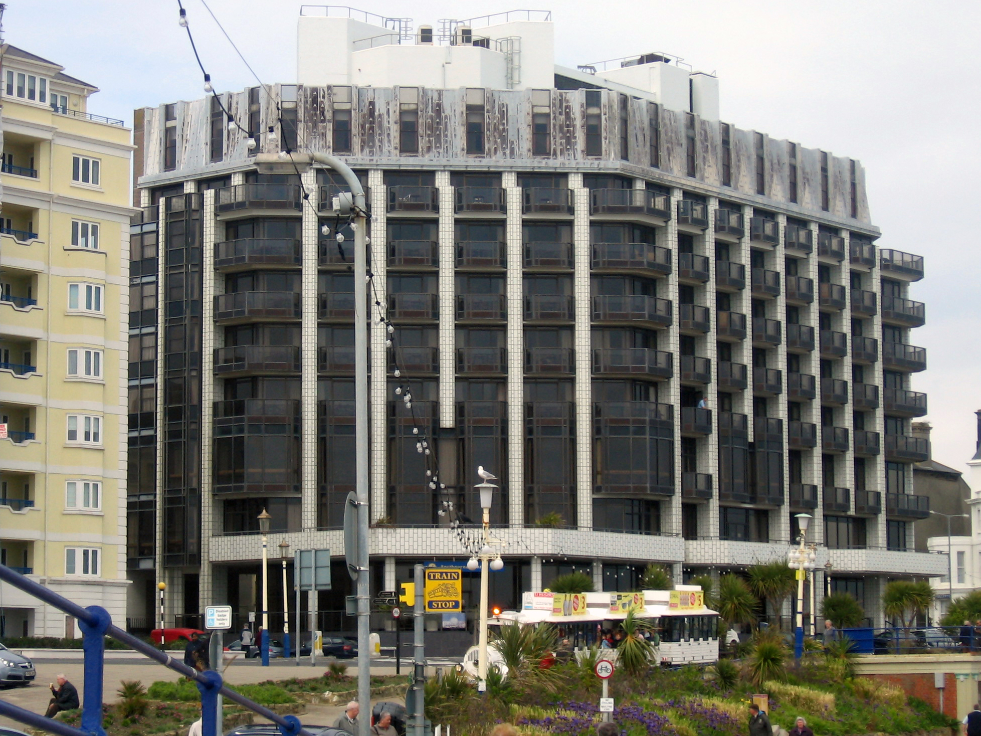 the Eastbourne Centre - formerly called the T&G Centre, Eastbourne